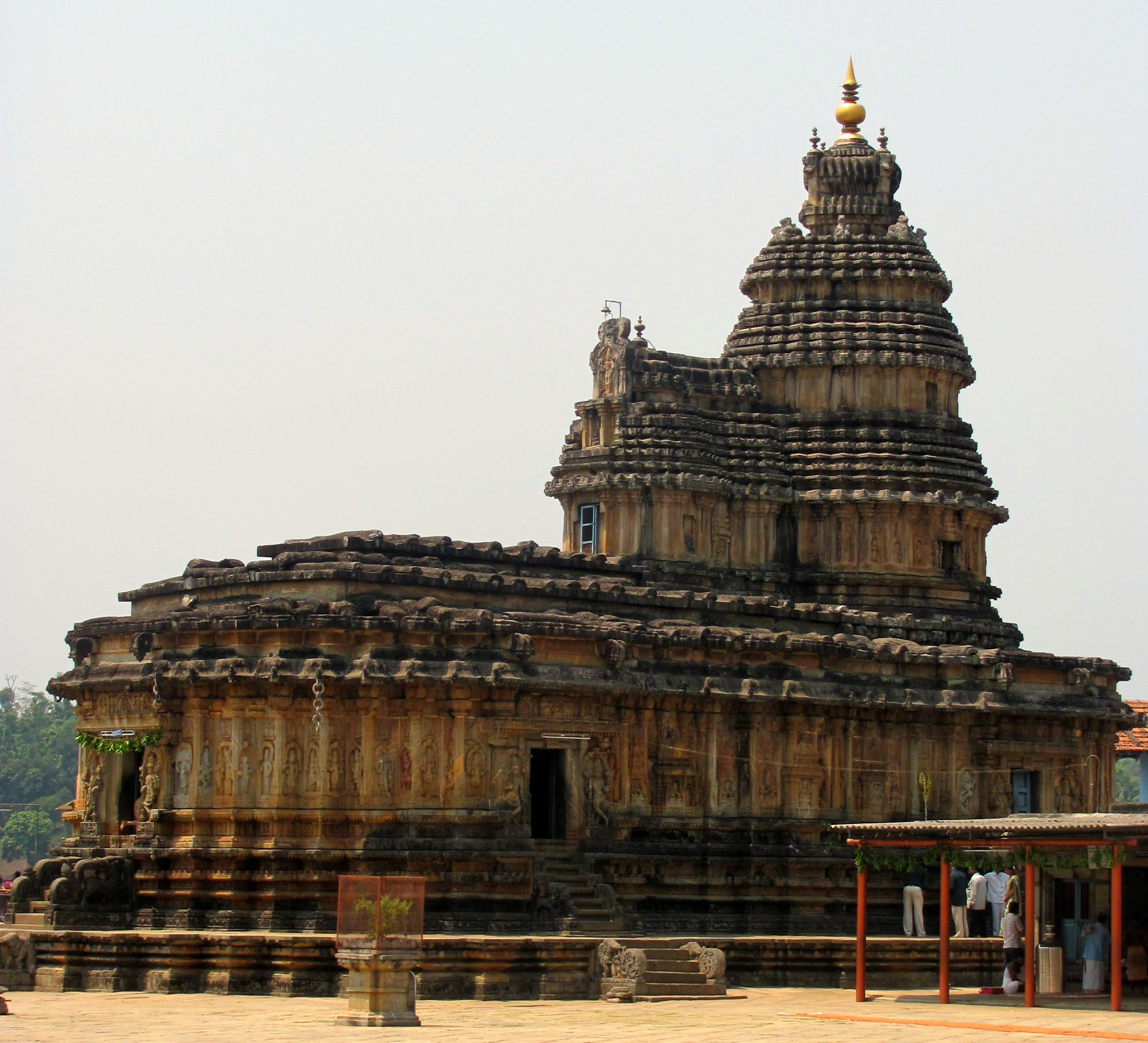 Sri Vidyashankara Temple part of the Sringeri Sharada Peeta in the town of Sringeri, Karnataka.....Sringeri is the is the site of the first maţha established by Adi Shankaracharya..... To know more....visit